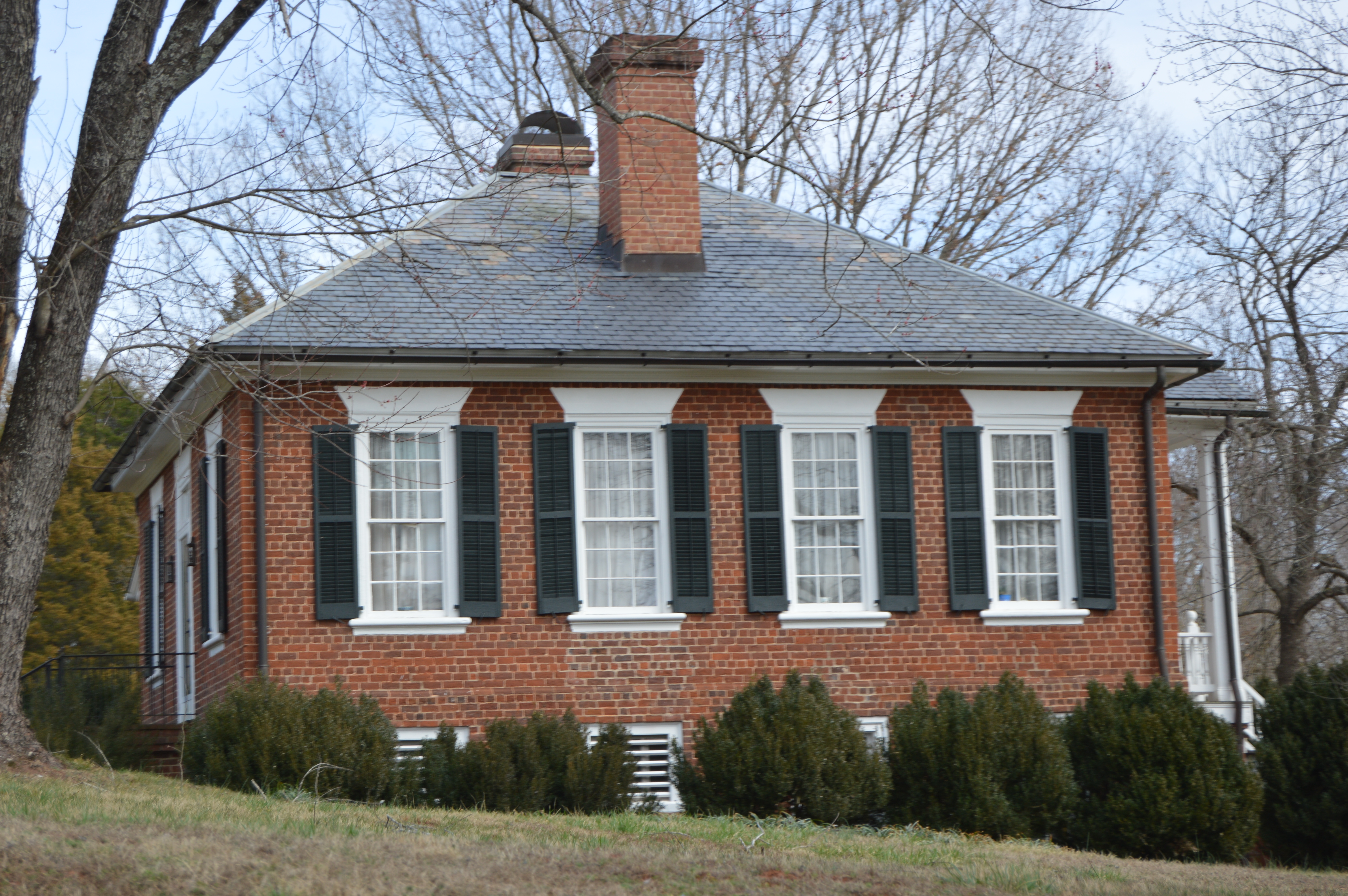 Western side and rear of the Walker House, located on Warren Ferry Road at Warren in Albemarle County, Virginia, United States. Built in 1803, it is listed on the National Register of Historic Places.